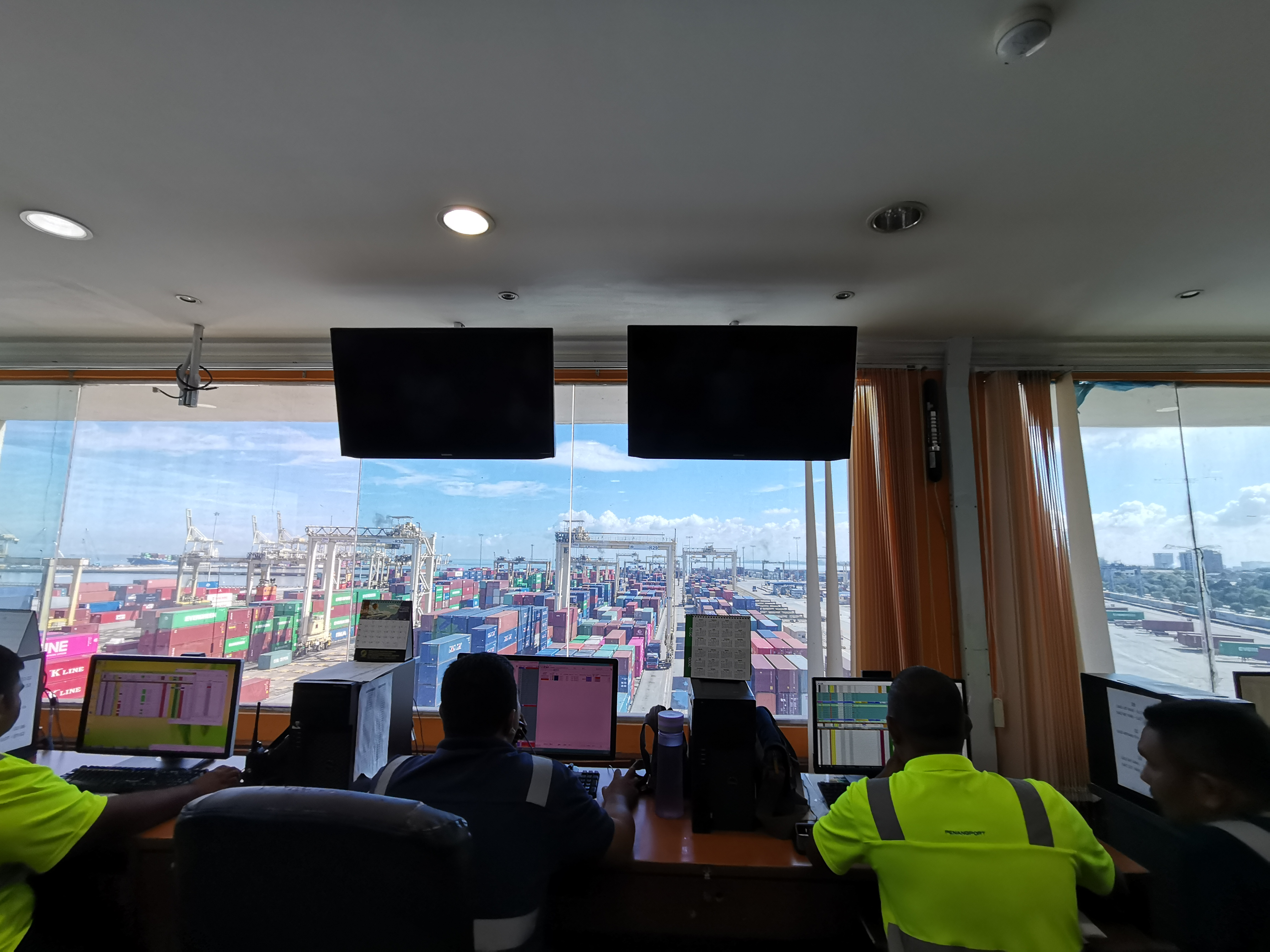 Penang Port worker working on the control tower overseeing North Butterworth Container Terminal (NBCT).